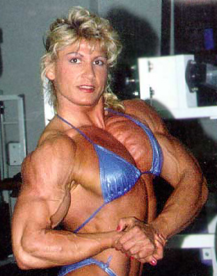 I am the author of this image, as well as the copyright holder. I hereby release it into the public domain